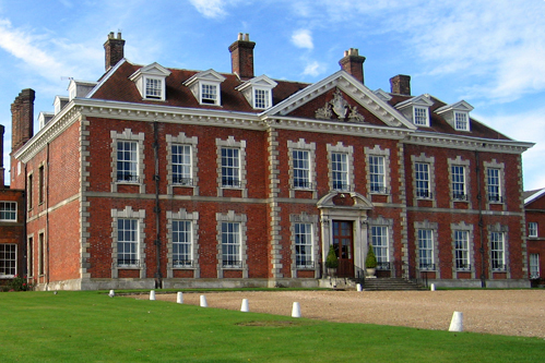 Beechwood Park School main building facade